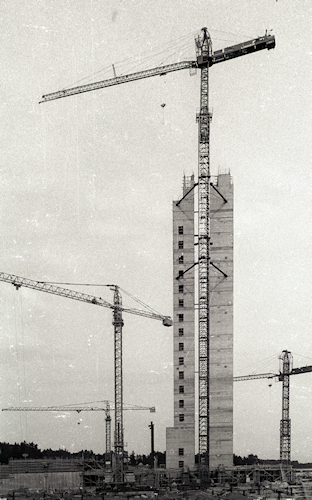 Fortum headquarters in Espoo, Finland under construction